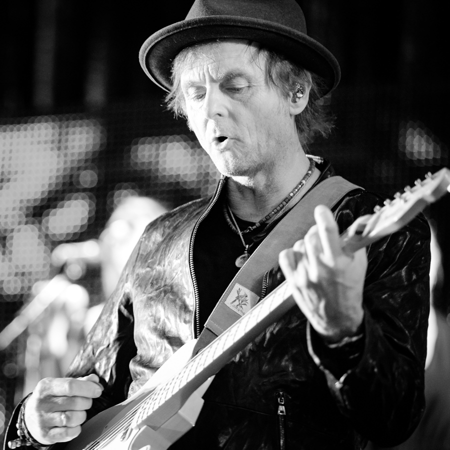 Paul Waaktaar-Savoy with a-ha at Kirketorget. The concert was part of Kongsberg Jazzfestival and took place on 06. July 2018 in Kongsberg. Lineup:Morten Harket (vocal)Paul Waaktaar-Savoy (guitar and vocal)Magne Furuholmen (keyboard)Unidentified (drums)Unidentified (keyboard)Unidentified (cello)Unidentified (Unknown instrument)Unidentified (Unknown instrument)